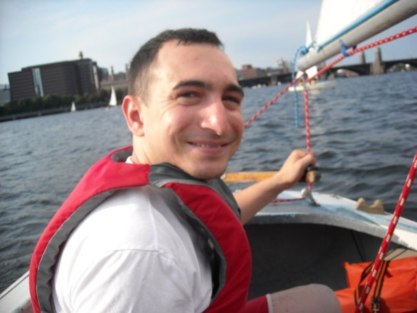 Picture of Joel Tenenbaum